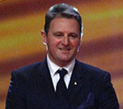 Patrick Ortlieb (1967), Austrian alpine skier and politician